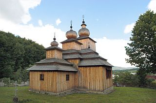 church